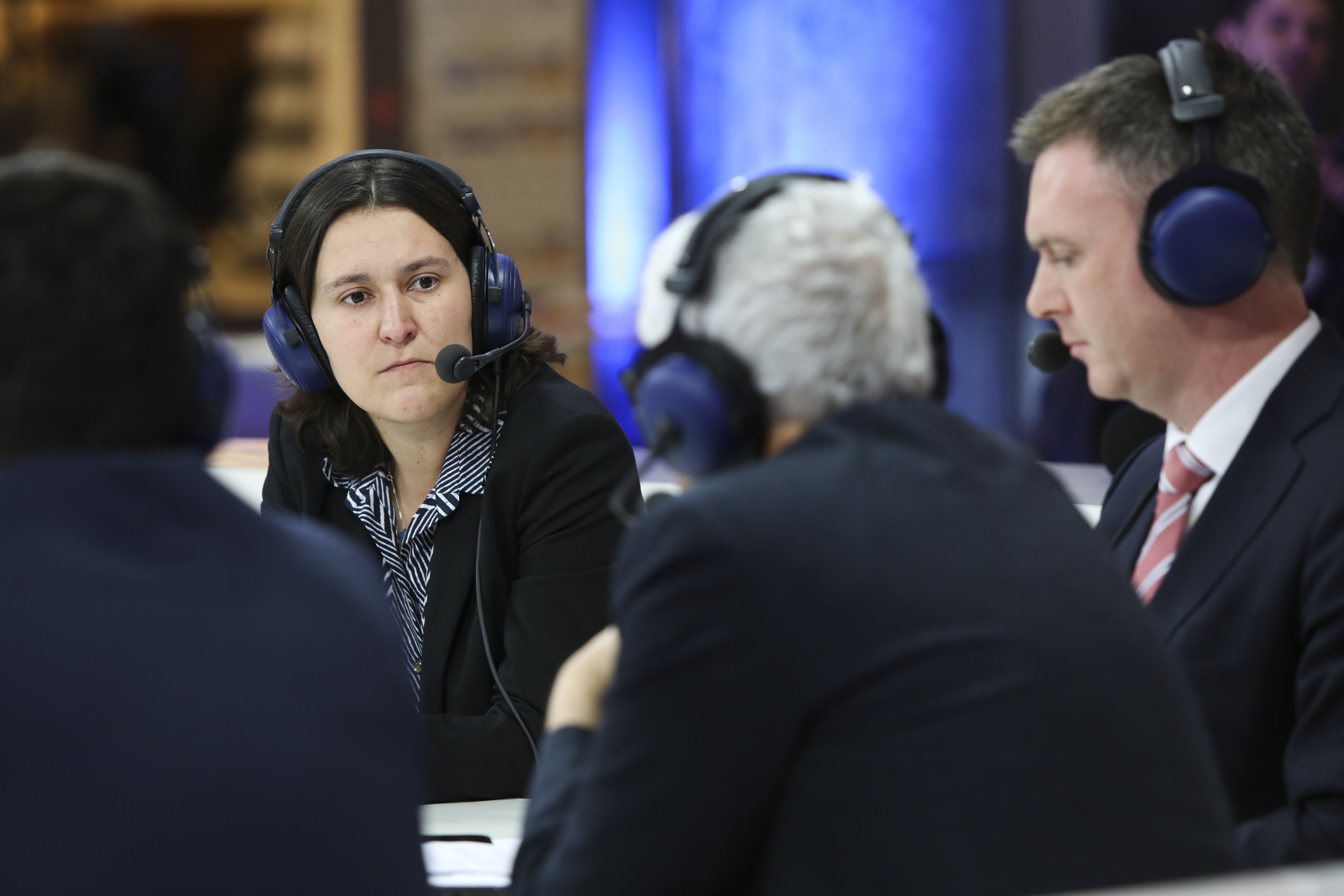 Euranet Plus, the leading radio network for EU news, hosted a Citizens’ Corner live debate on fighting corruption in the EU at the European Parliament in Brussels on December 2, 2014. The debate was jointly produced by Euranet Plus and Skaï Radio, Greece, member of the Euranet Plus network, and was moderated by journalist Stavros Samouilidis from Skaï Radio (in Greek) and Brian Maguire from the Euranet Plus News Agency in Brussels (in English). The debate also featured students from the Euranet Plus campus radio network. The debate was broadcast live at the top of this web page. You are invited to comment on the debate on our Facebook page event page or on Twitter using the hash tag #CitizensCorner. Part 2 | English | 13h15 – 14h00 CET | moderator Brian Maguire | guests: - Kati PIRI, MEP, Netherlands, Group of the Progressive Alliance of Socialists and Democrats - Eva KAILI, MEP, Greece, Group of the Progressive Alliance of Socialists and Democrats - Georgios KATROUGKALOS, MEP, Greece, Confederal Group of the European United Left - Nordic Green Left - Giovanni KESSLER, Director-General of the European Anti-Fraud Office (OLAF) - Carl DOLAN, Director of the Transparency International European Union Liaison Office Get more details, soundbites and the video recording of the debate at